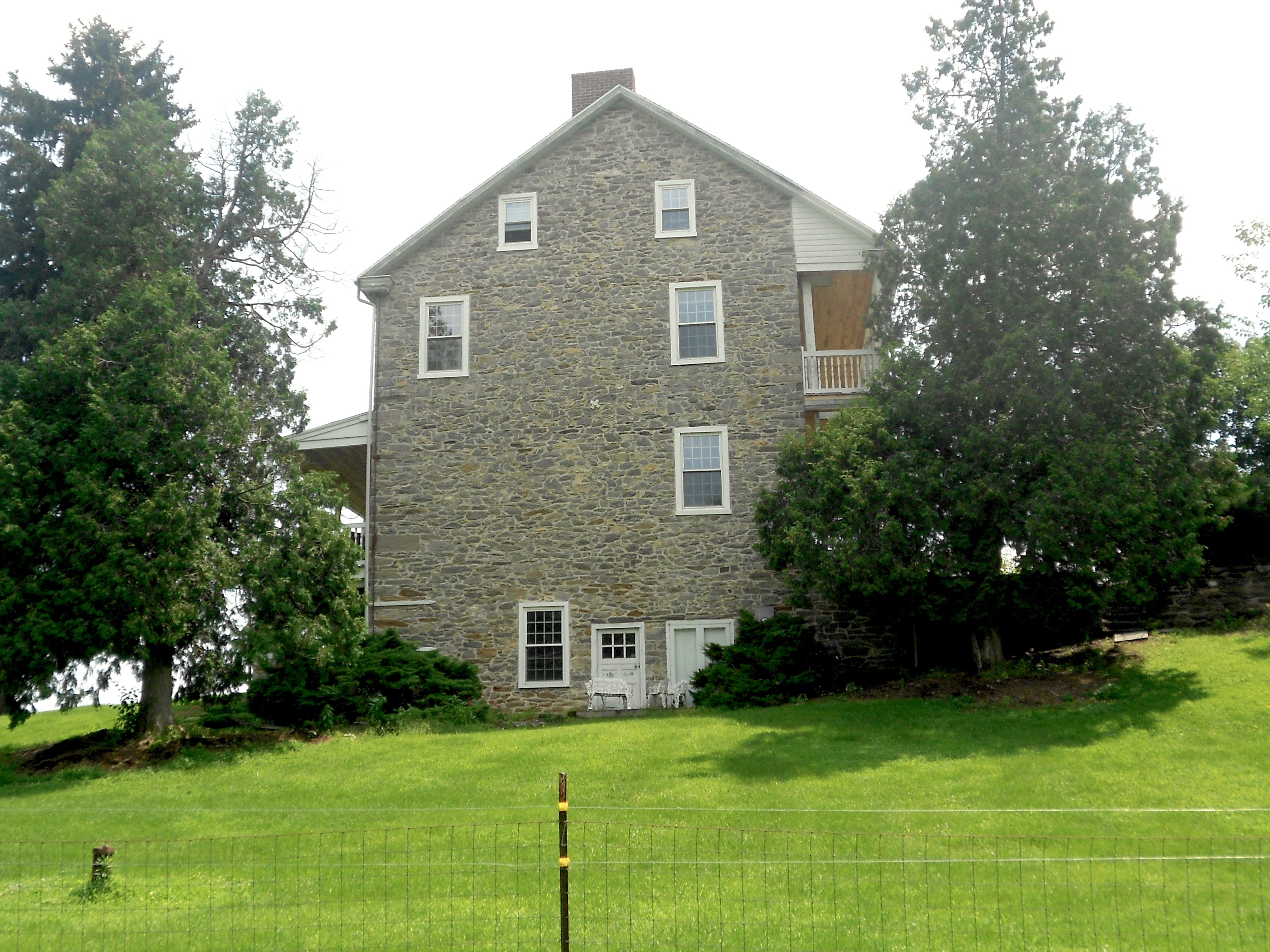 Burgholtshouse, listed on the NRHP on June 22, 1979 (#79002369). Located south of East Prospect on Pennsylvania Route 124 (39°57′57″N 76°30′54″W) in Lower Windsor Township, York County, Pennsylvania.